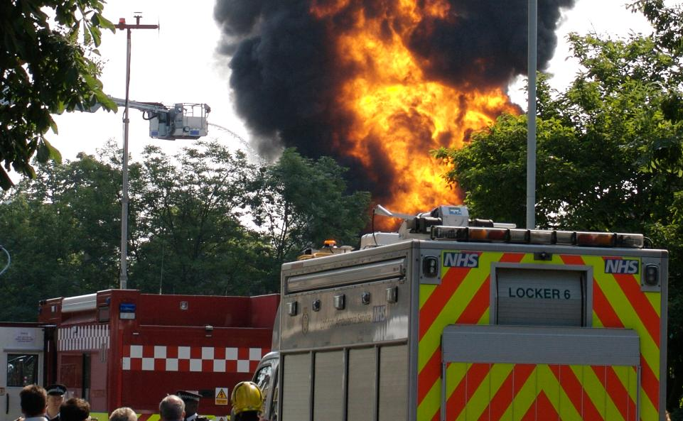 Six fire engines and 30 firefighters tackle a fire at an electrical substation in Upper Sydenham, London